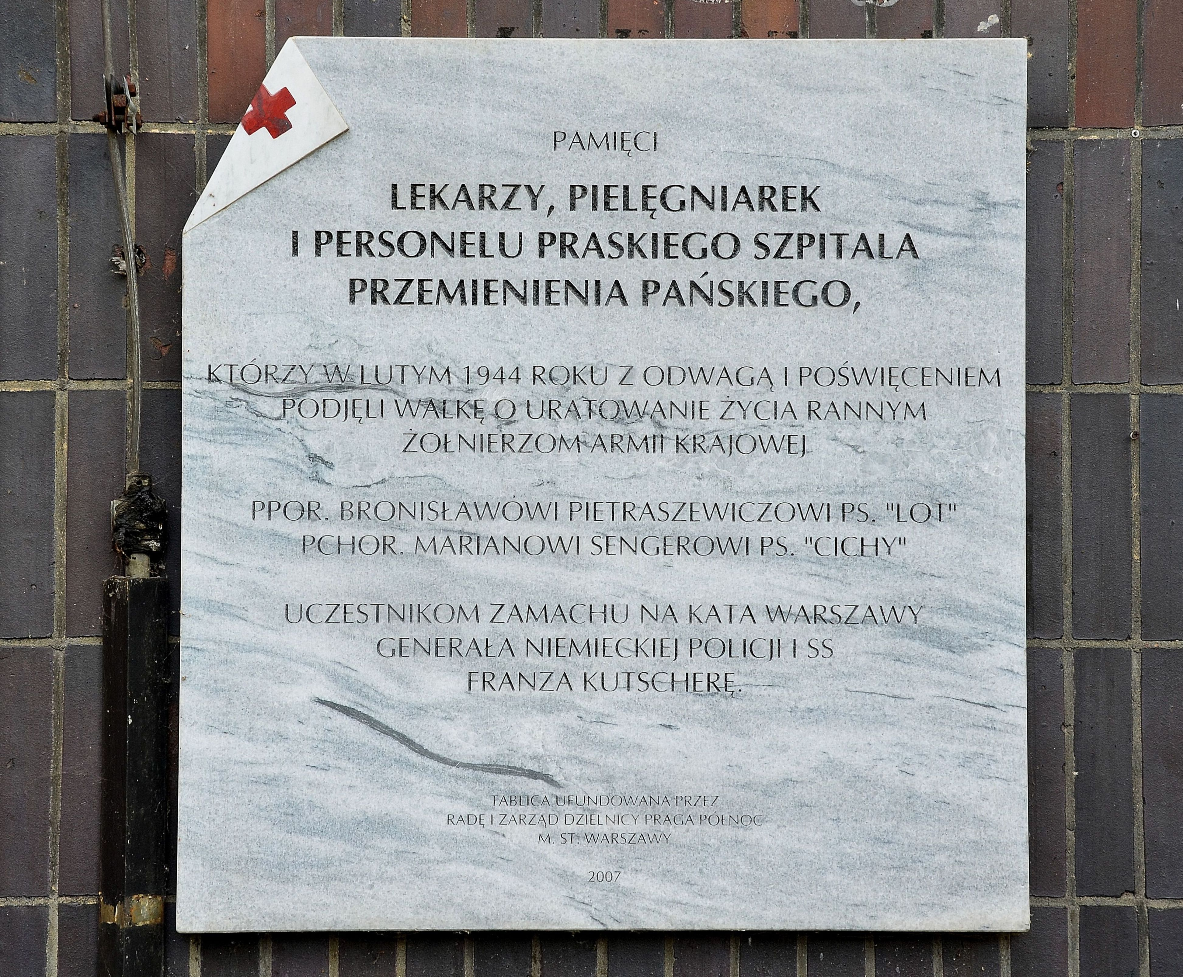 Praski Hospital in Warsaw. Plaque commemorating the doctors, nurses and hospital staff who fought to save lives of Lot and Cichy, the Home Army soldiers severely wounded in the successfull attempt to take life of SS-Brigadefuhrer Franz Kutschera in February 1944